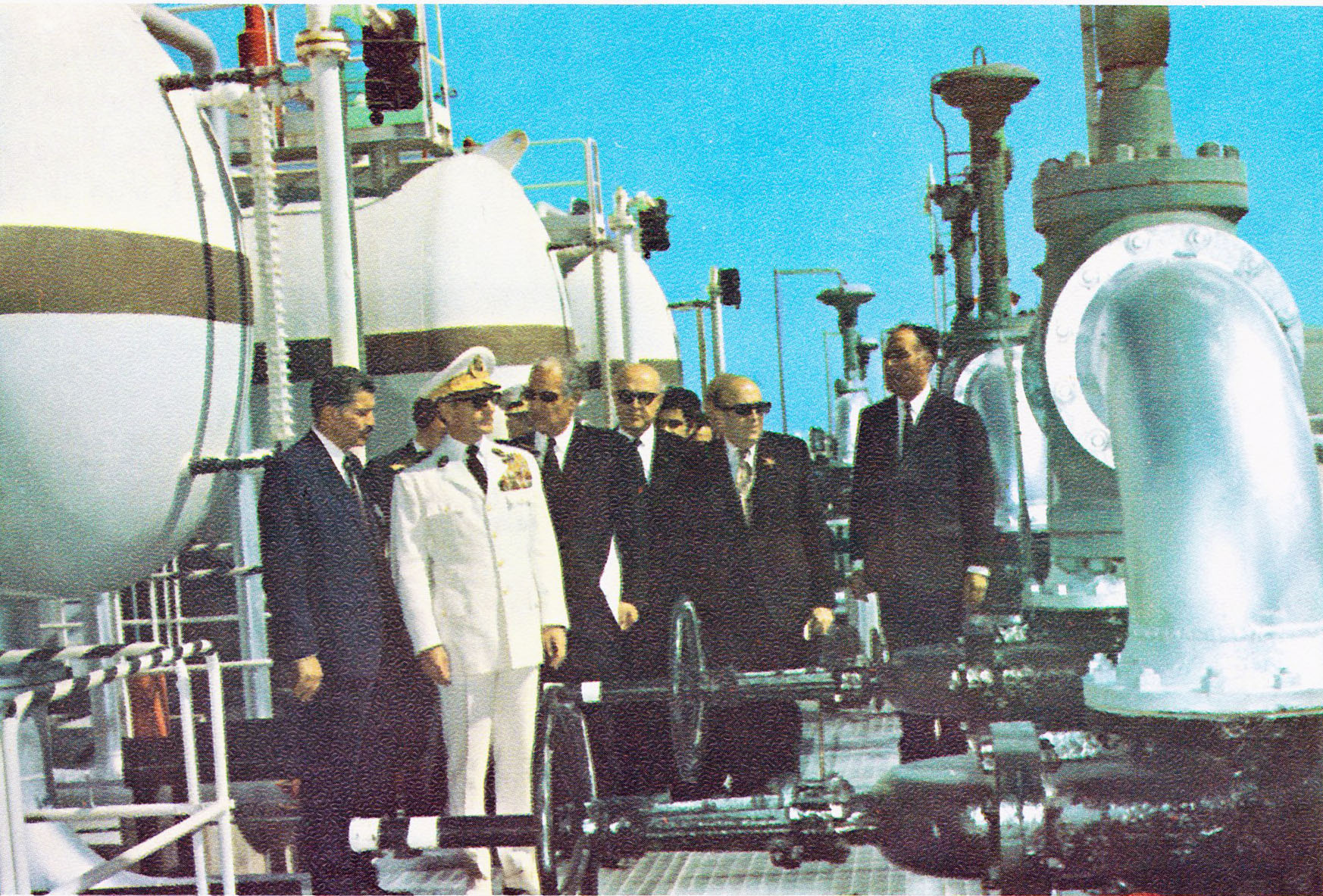 Shahanshah Aryamehr opens the facilities of International Naval Oil Company of Iran in Aban 1349 equal to November 1970